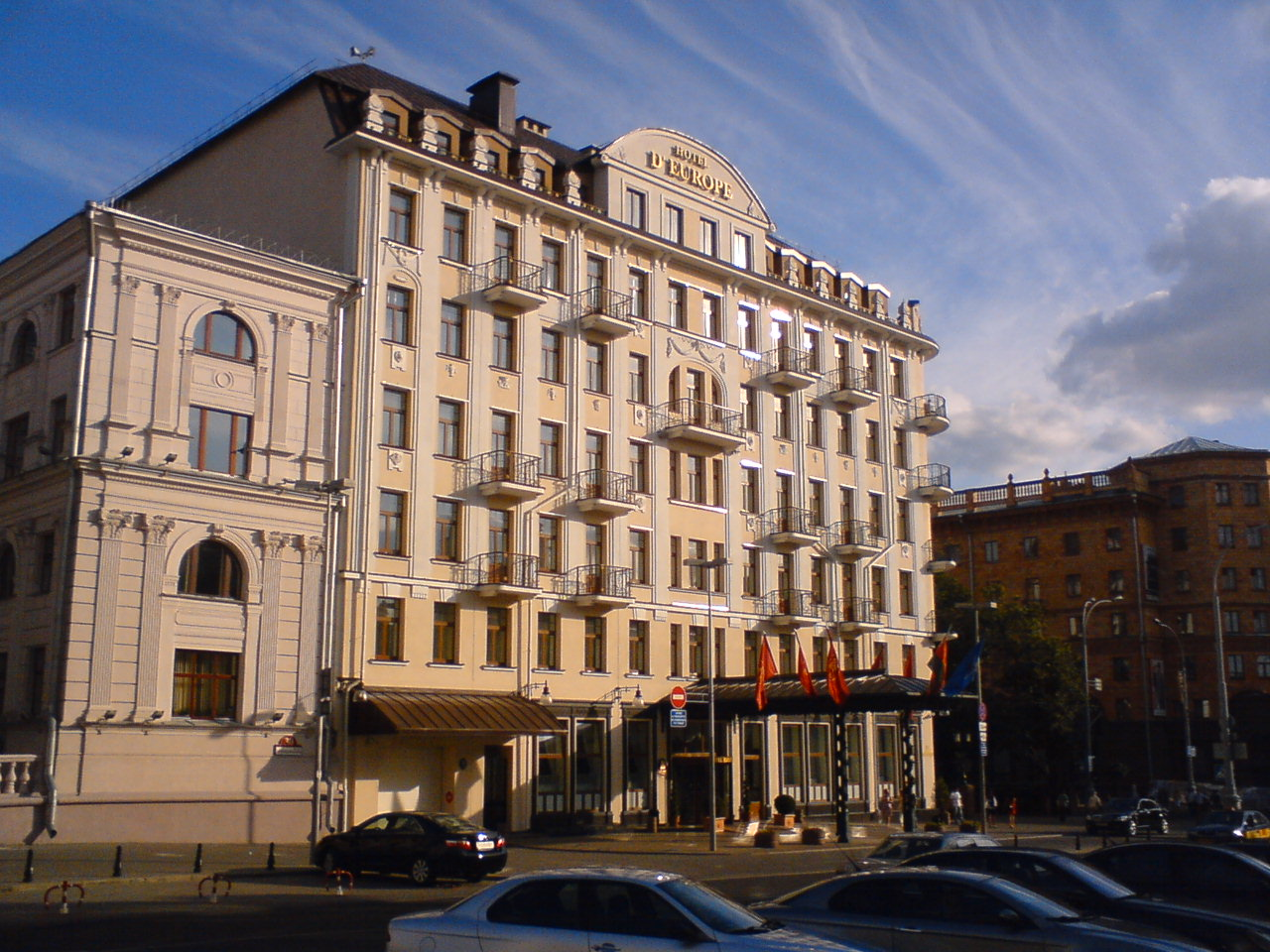 Europa Hotel Minsk